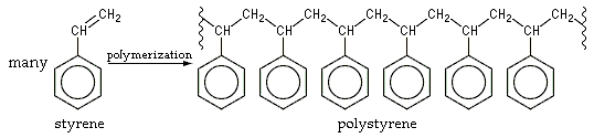 Chemical reaction diagram showing polystyrene formed by polymerization of styrene H Padleckas created this image file on November 17, 2005 for use in articles like "Polystyrene" in Wikimedia. H Padleckas 06:49, 18 November 2005 (UTC)